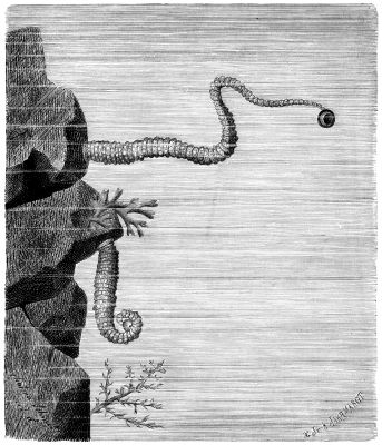 Piscicolid leech Pontobdella muricata (Linnaeus, 1758).